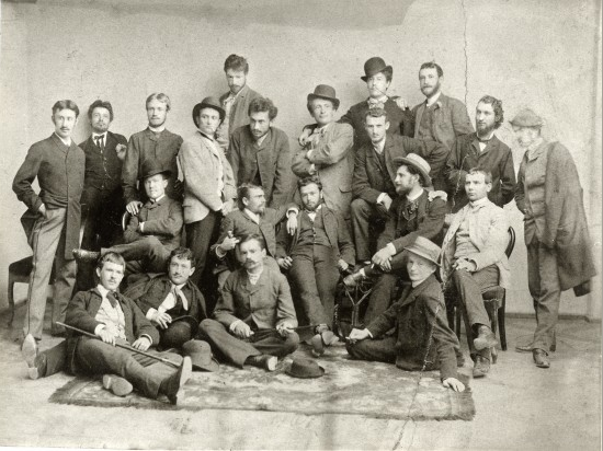 „Students at the Munich Academy, 1886. Seated: Widhopf (centre), Mucha (in profile) and Mašek (right). Marold and Pasternak are among those standing“